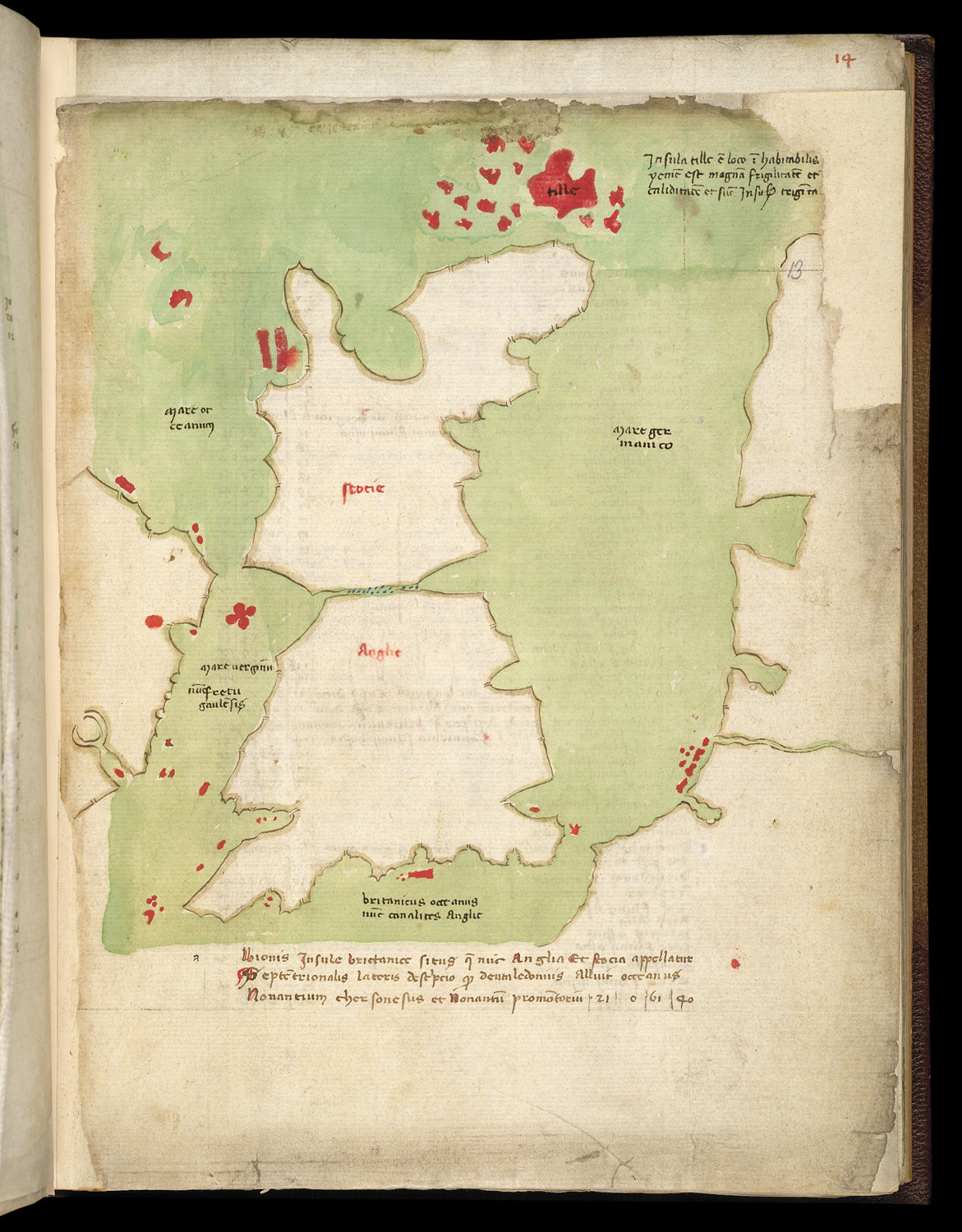 A Latin map of Great Britain, showing it divided among England (Anglie), Scotland (Scotie), and Thule (Tille, placed as a combination of the Orkneys and Shetlands).